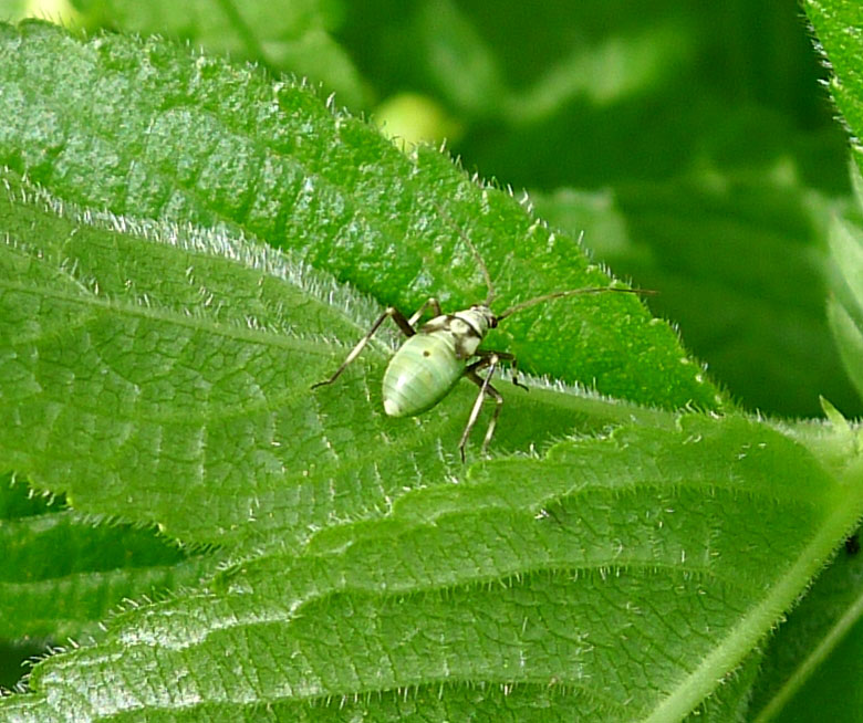 WWT Monkwood. SO 802607 May 4th 2015. one seen